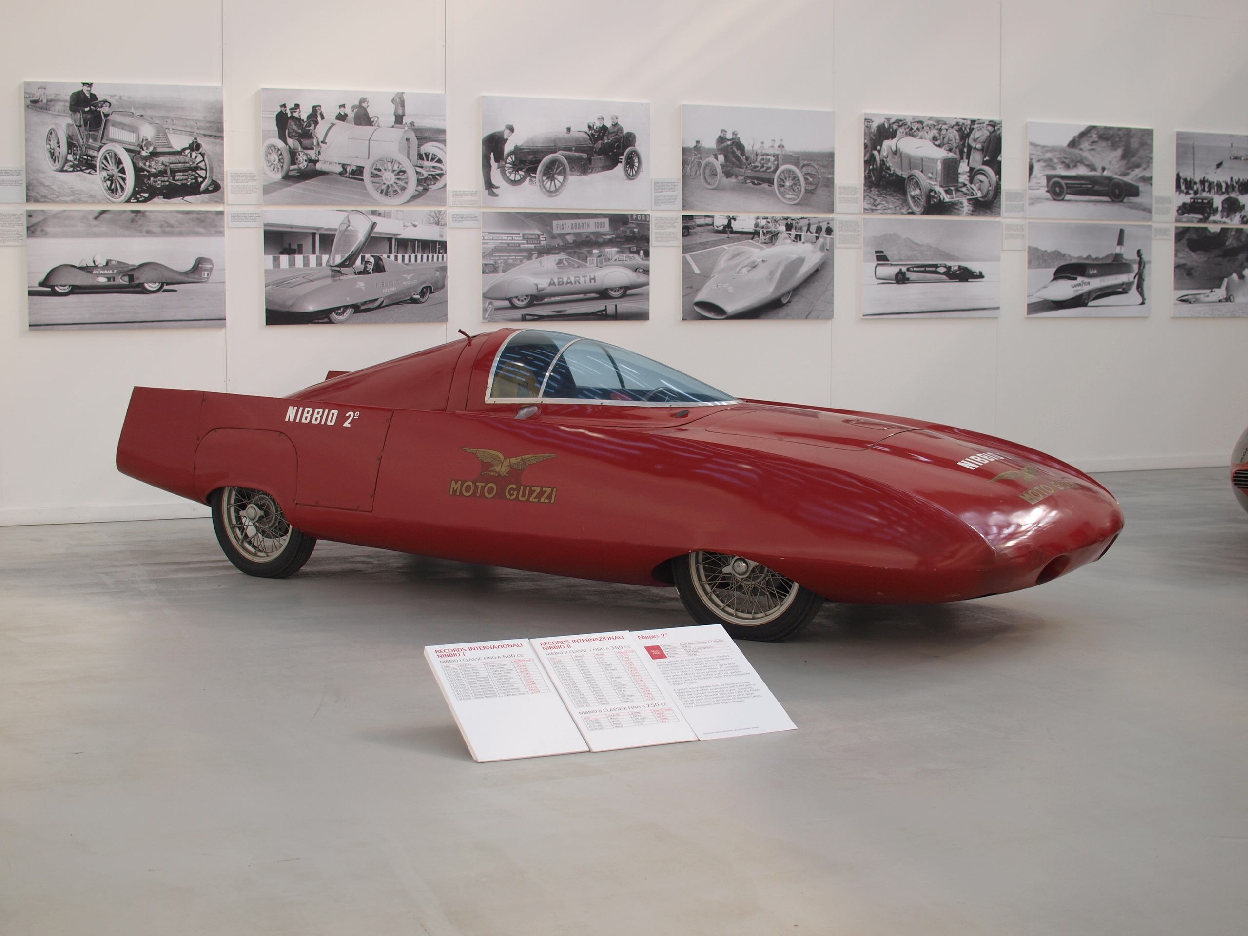 Car evolution: Nibbio 2º 350 cm³ single Moto Guzzi engine, set a series of new long-distance records at Monza.